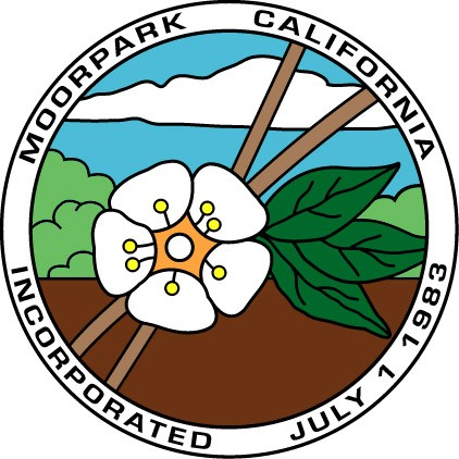 This is the official seal of the City of Moorpark, California.